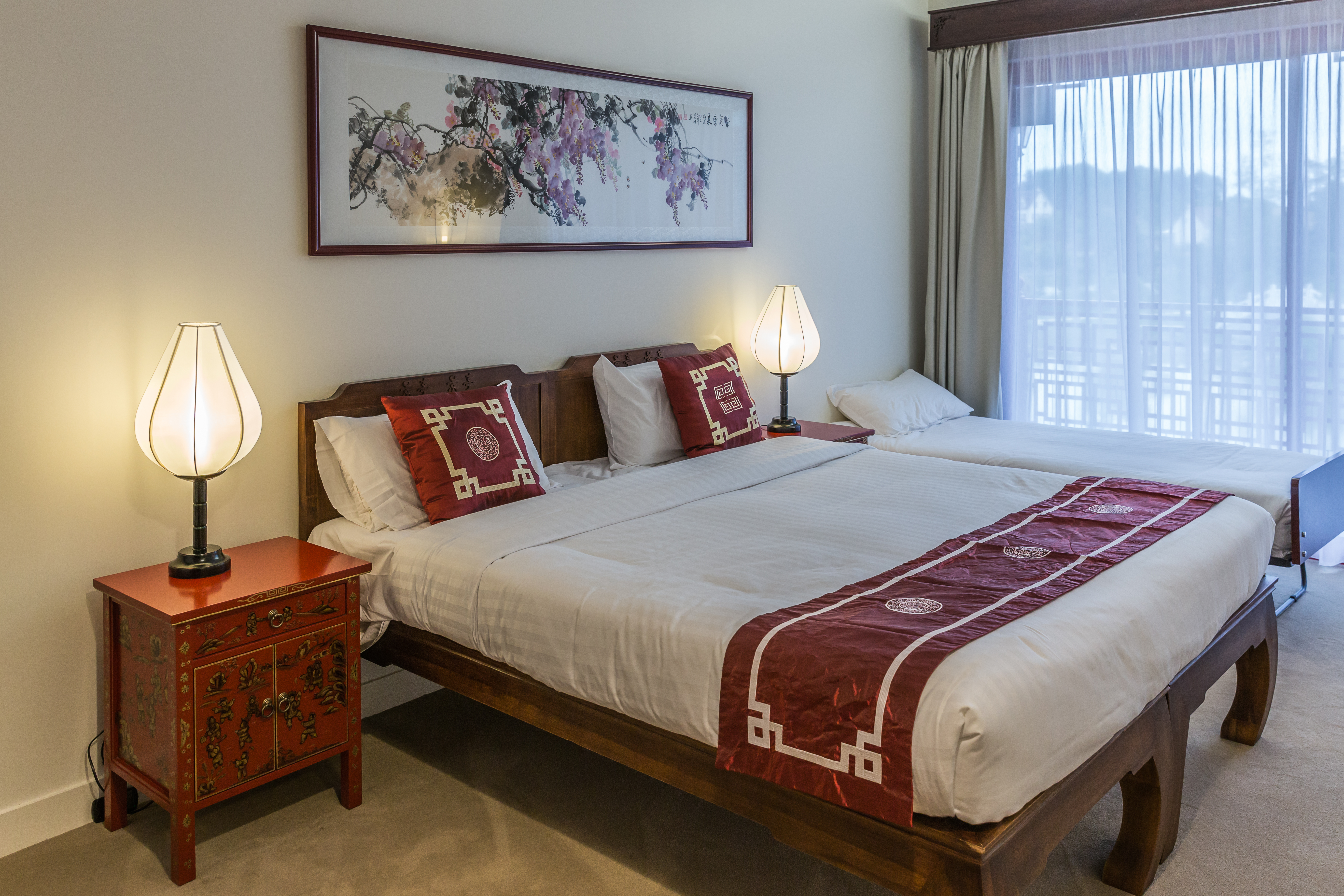 House Hotel Les Pagodes de Beauval to Seigy, France.